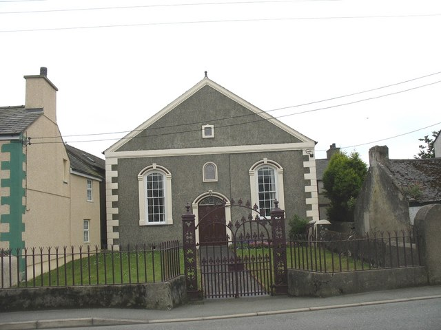 Siloh Welsh Baptist Chapel, Caergeiliog The present chapel dates from 1866. There is a cemetery round the back.